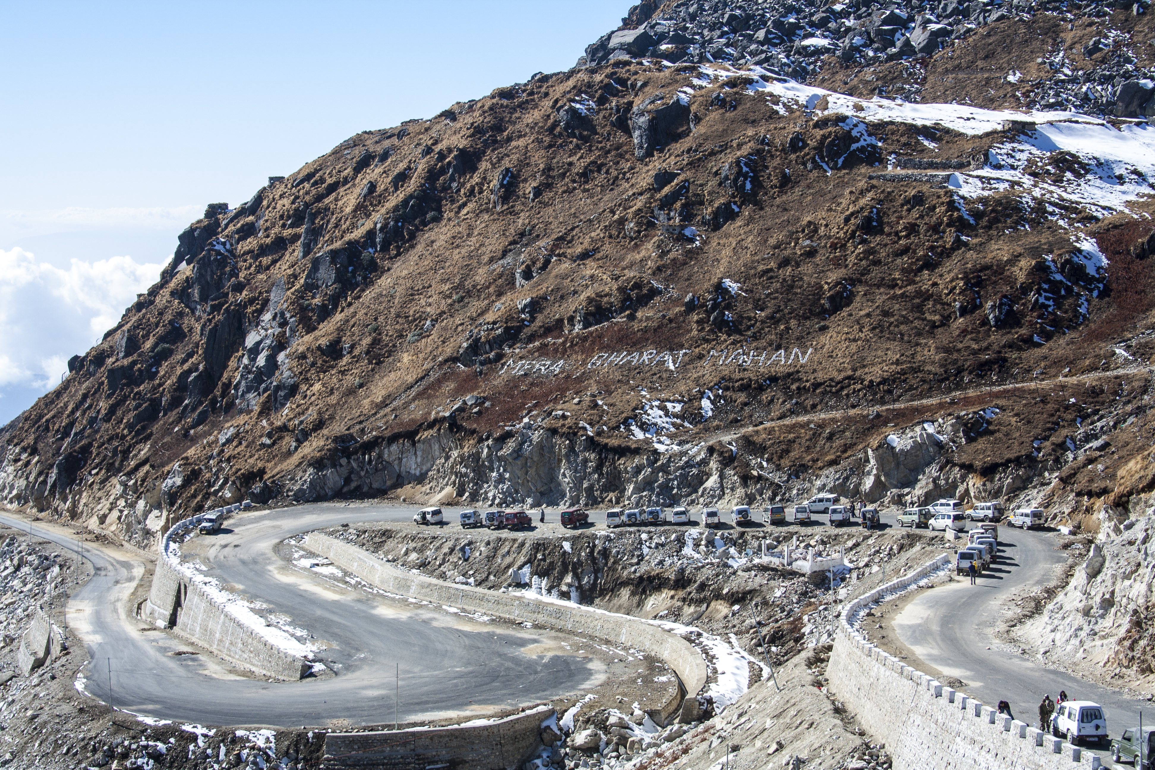 This Photograph has been taken during my visit to Nathu La Pass , Sikkim. This layered road photo has been taken from top. If you watch the photo minutely you can read the line Mera Bharat Mahan (My India is Great) engrave on the Hill.